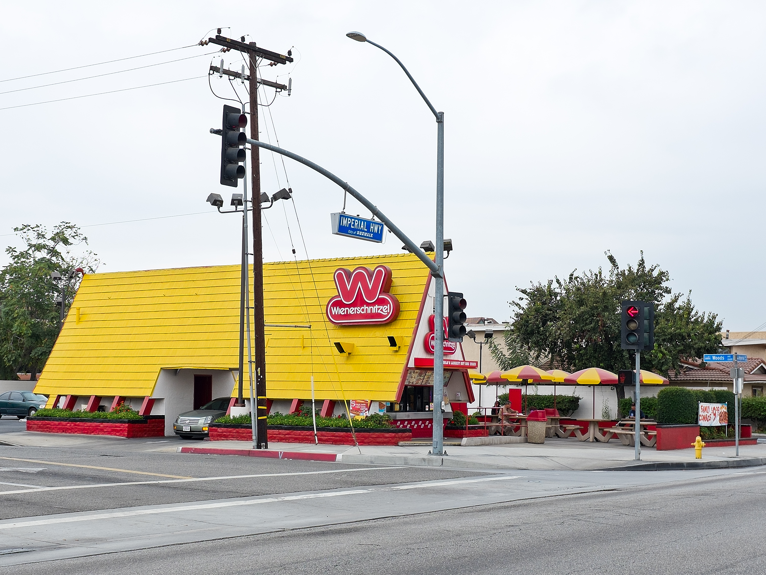 Wienerschnitzel Hot Dogs, at the corner of Imperial Hwy and Woods Ave in Norwalk, California